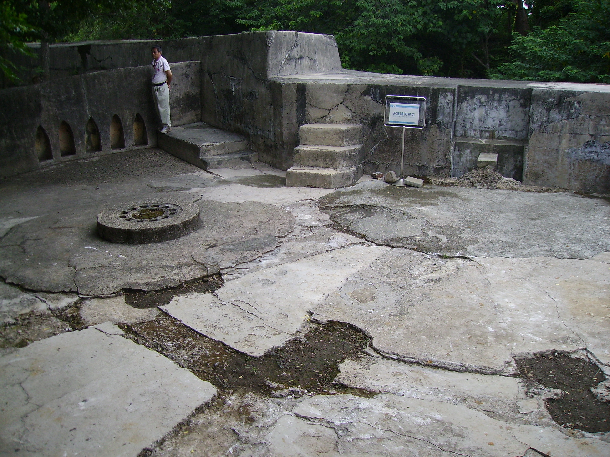 fort in Tamsui Townshippao